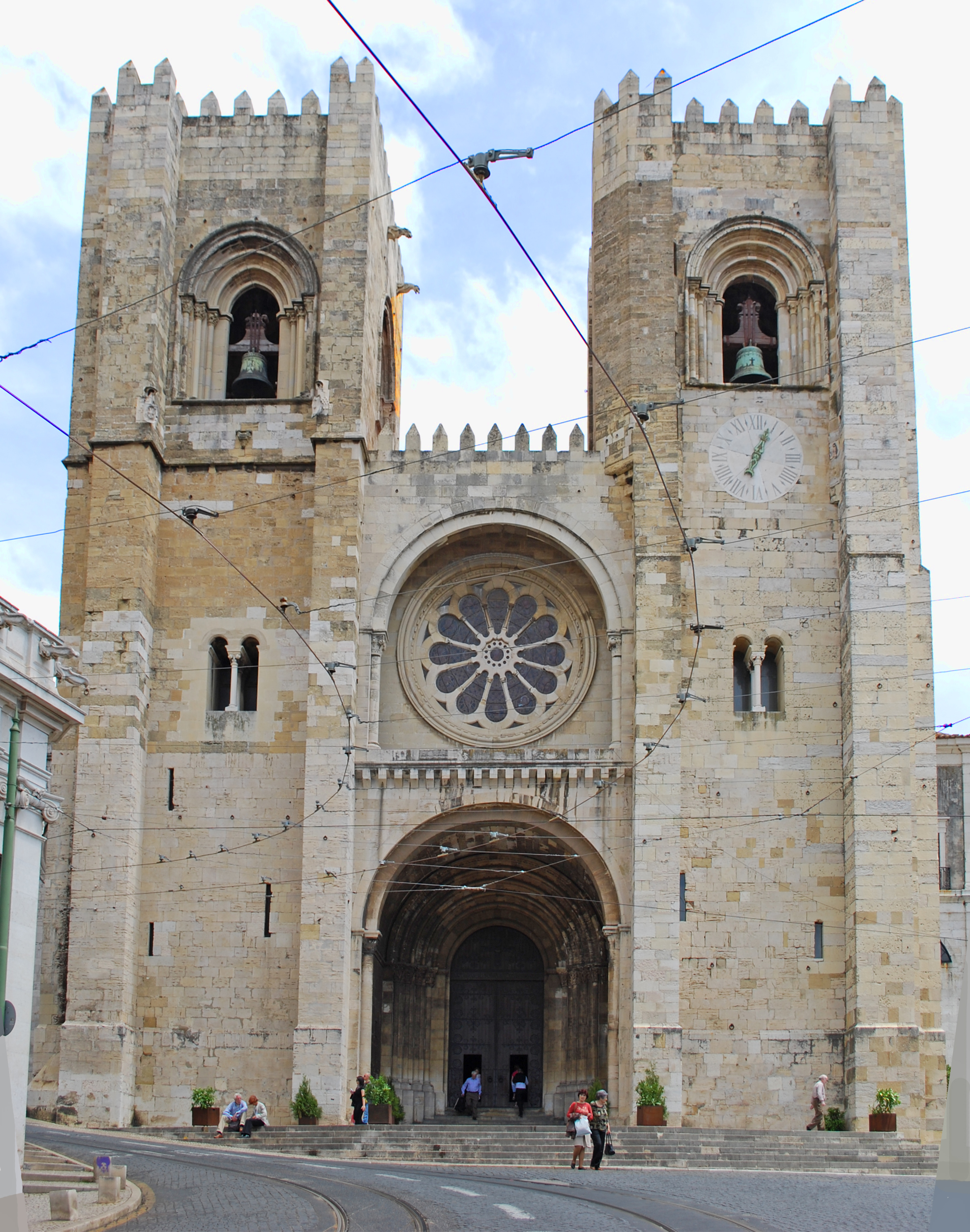 This file was uploaded for Wiki Loves Monuments in Portugal with the unique identifier 70502. Lisbon Cathedral